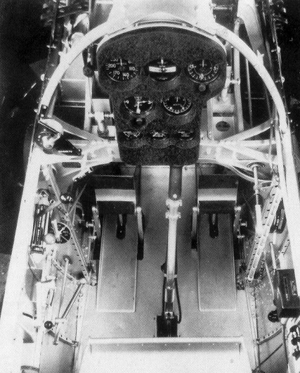 P-12E_F4B-3 cockpit